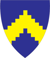 Coat of arms of Sillamäe linn, Estonia